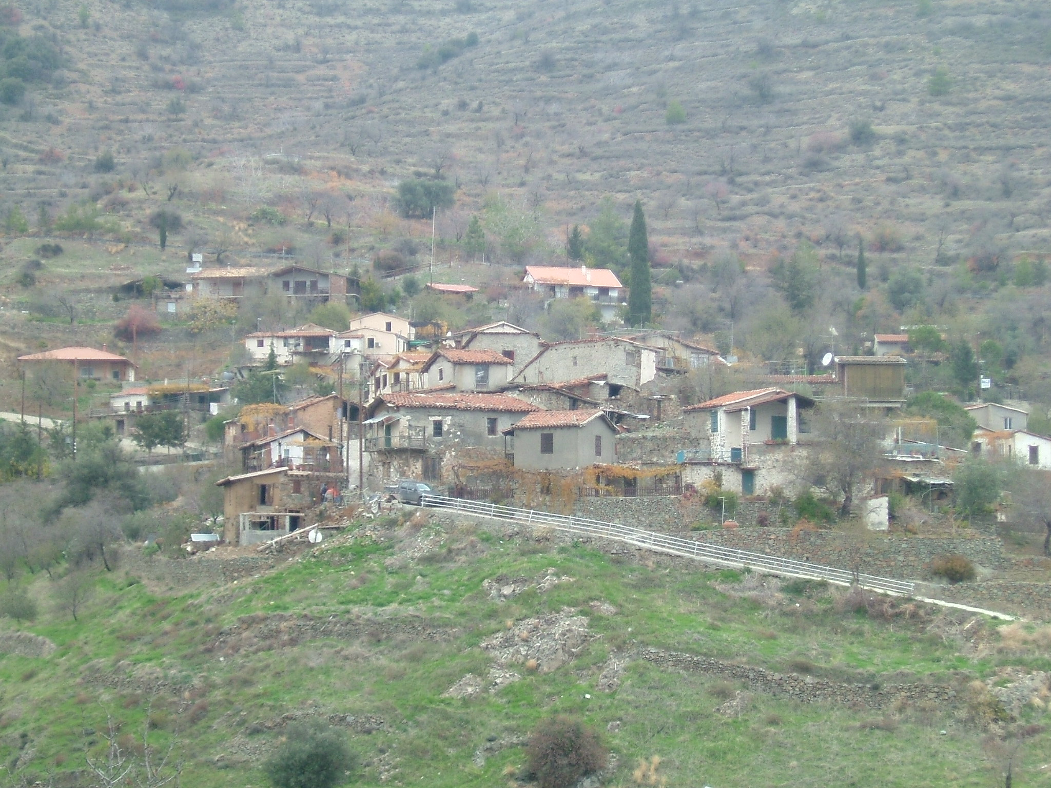 Lazanias vilage in Troodos Mountains (World Heritage Site), Cyprus.